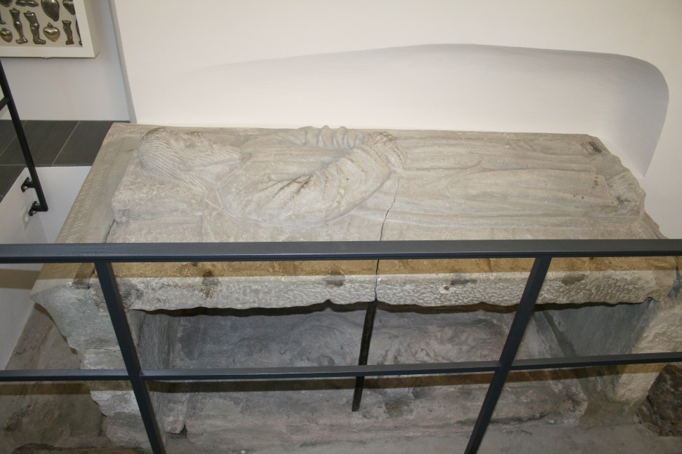 gravestones of the old grave of Bruder Klaus in the Grabkapelle in Sachseln, Obwalden, Switzerland